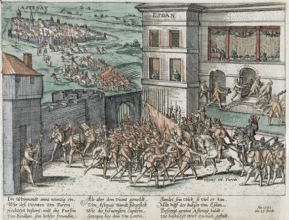 Colored engraving of the marriage of Henri de La Tour d'Auvergne, duc de Bouillon, musée national du château de Pau